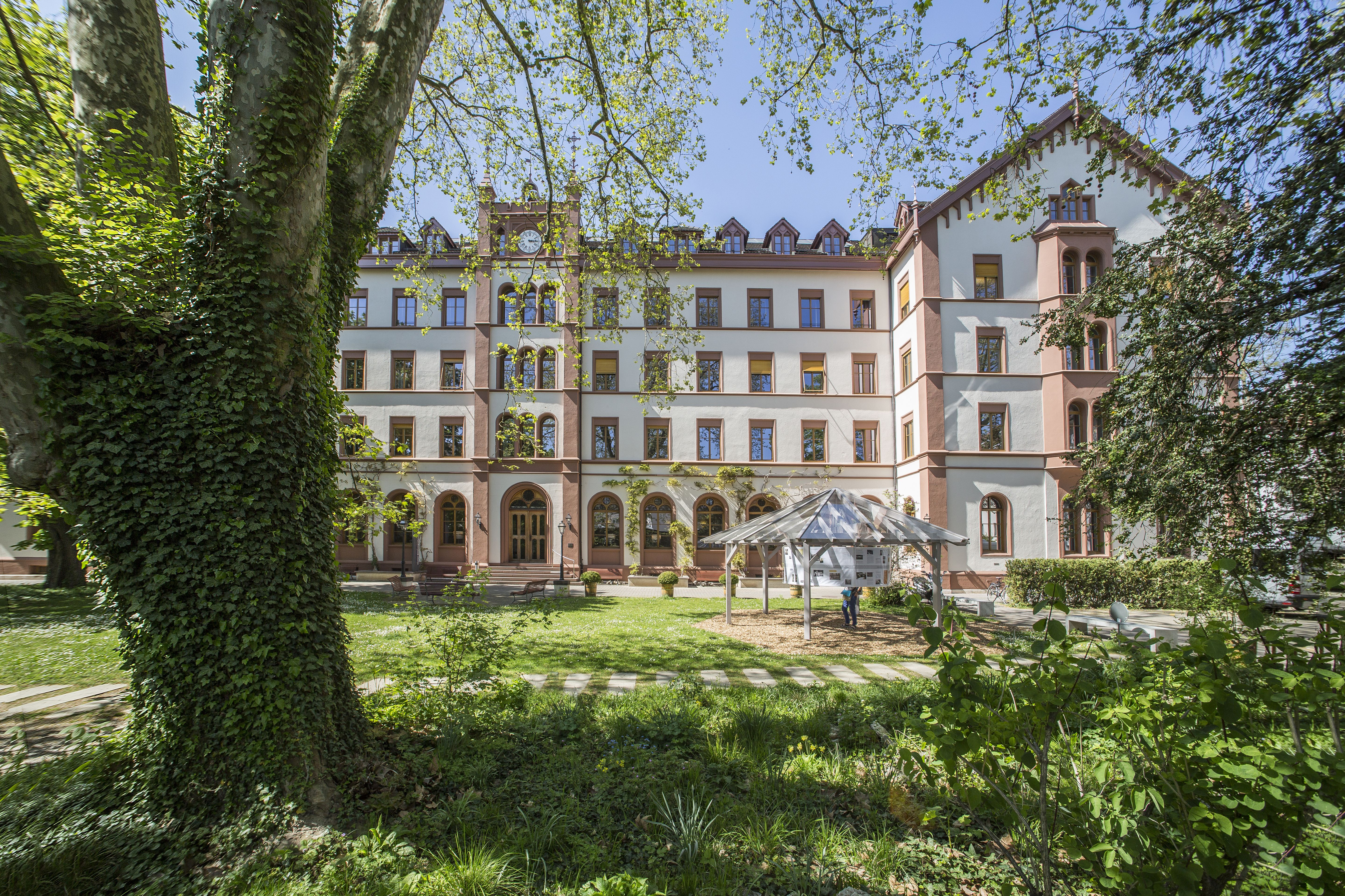 Built in 1860 by Johann Jakob Stehlin d.J., headquarter of Mission 21 and Hotel Bildungszentrum 21